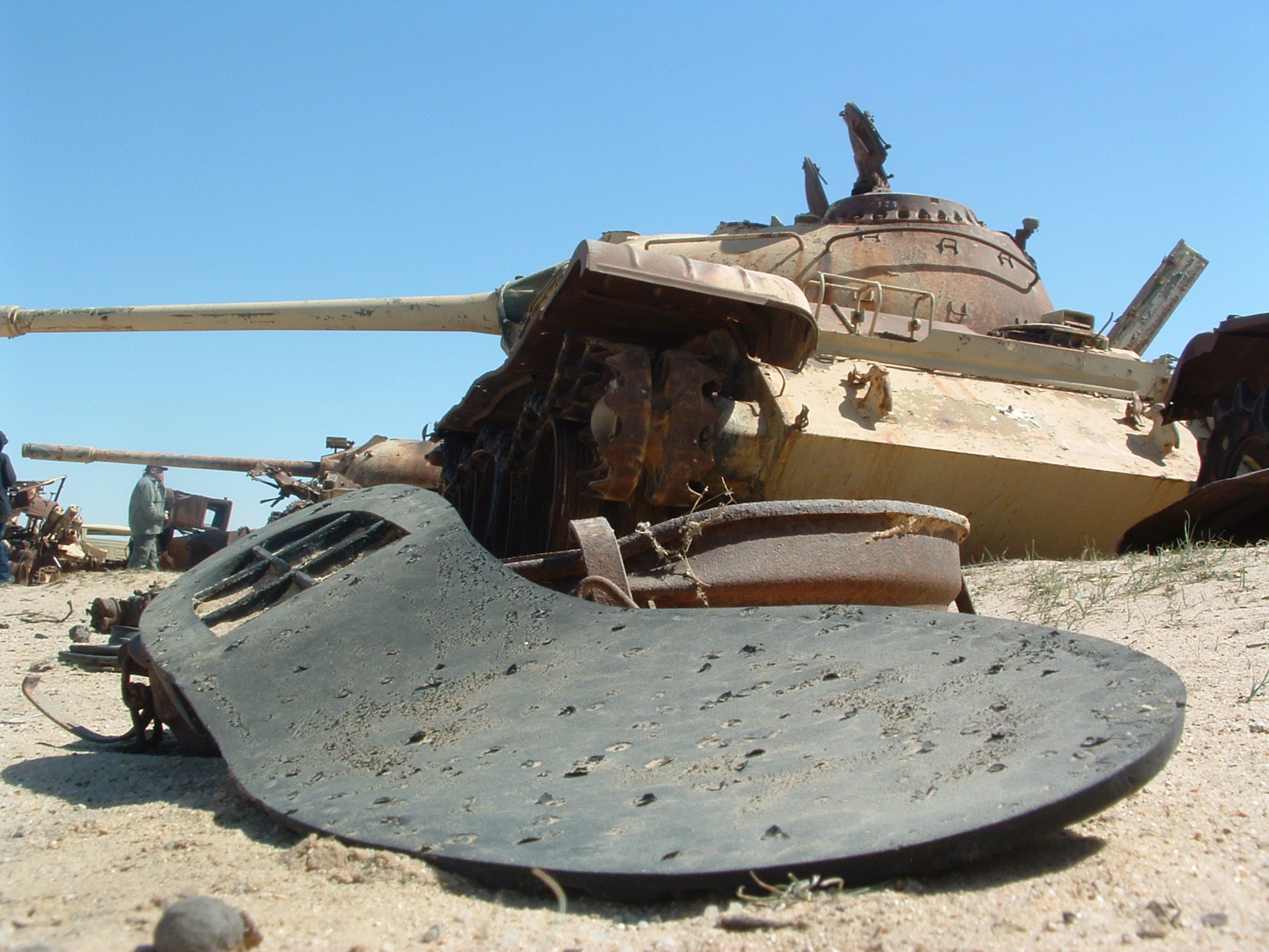 Highway of Death shoe sole. A sole, the only remaining part of a shoe, left behind while fleeing Kuwait along the Highway of Death.